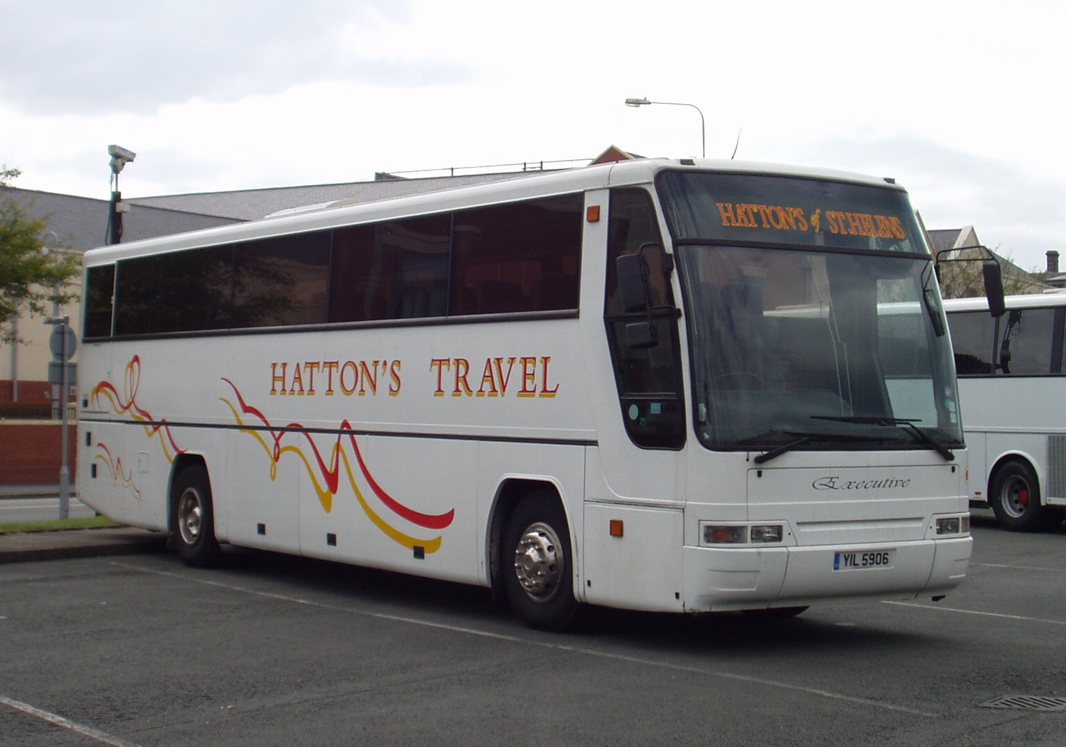 Plaxton Excalibur coach in Llandudno.